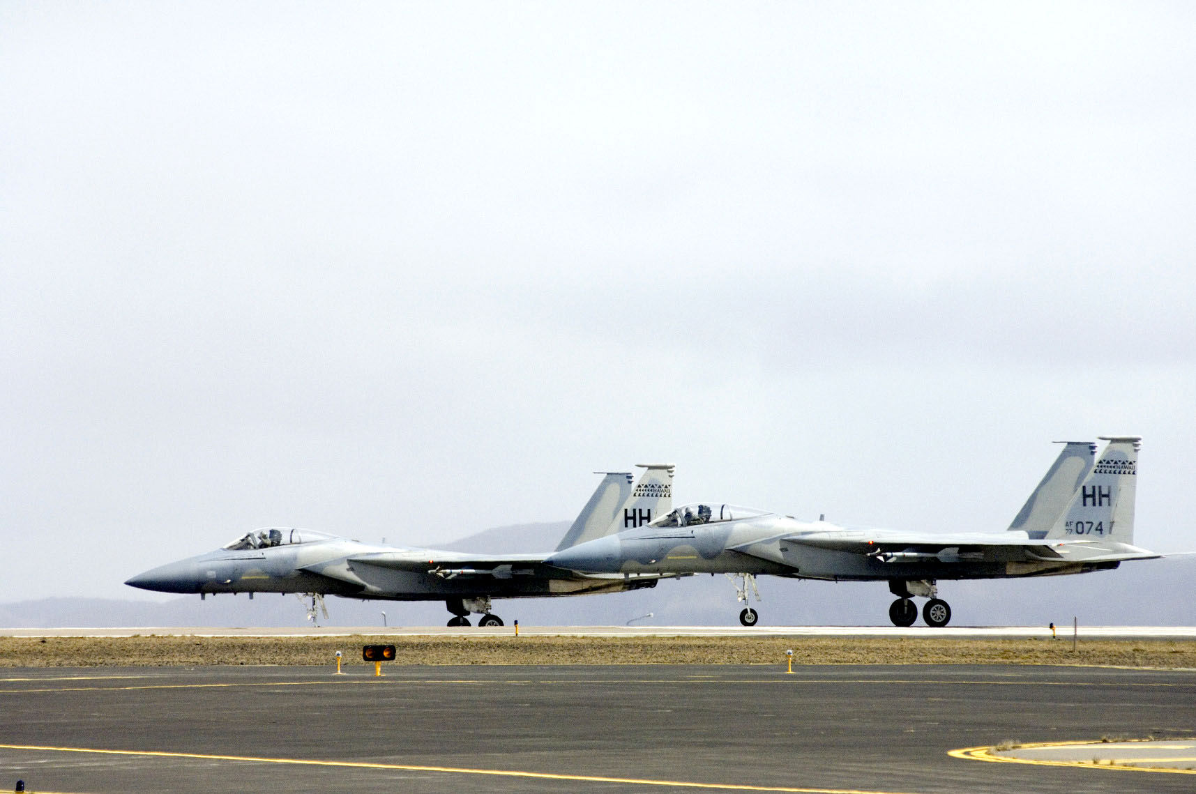 Two U.S. Air Force McDonnell Douglas F-15A-18-MC Eagle fighters (s/n 77-0074, 77-0077) assigned to the 199th Fighter Squadron, 154th Wing, Hawaii Air National Guard wait to take off from Naval Air Station Keflavik, Iceland, on Monday, 22 May 2006. Airmen and Sailors were reducing operations after more than 50 years of U.S. presence at the base.